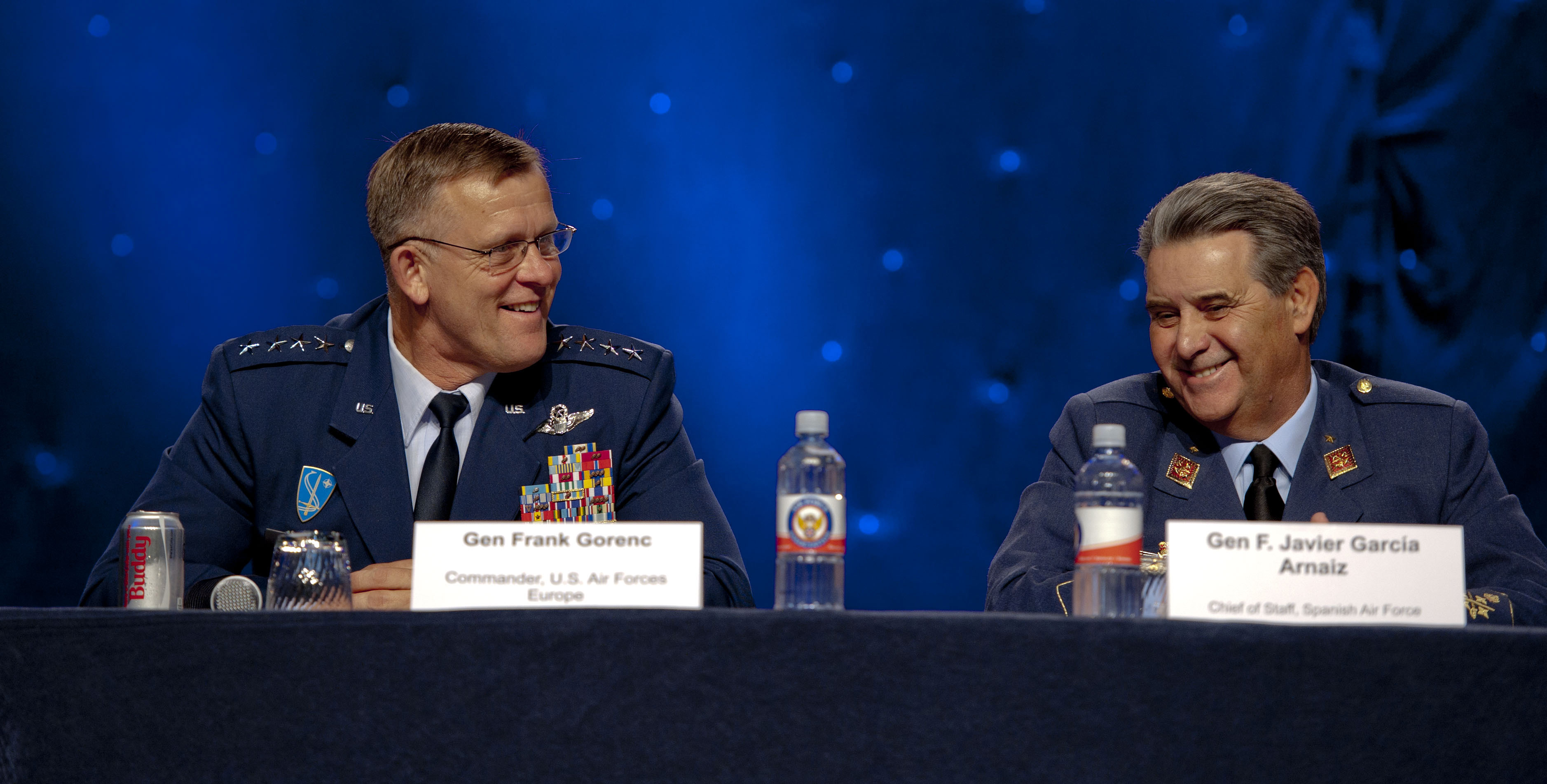 Gen. Frank Gorenc talks with Gen. F.Javier Garcia Arnaiz, chief of staff, Spanish Air Force, during the 2014 Role of Airpower in NATO panel discussion at the Air Force Association Air and Space Symposium, Sept. 15, 2014, in Washington D.C. Gorenc is the commander of the U.S. Air Forces in Europe.